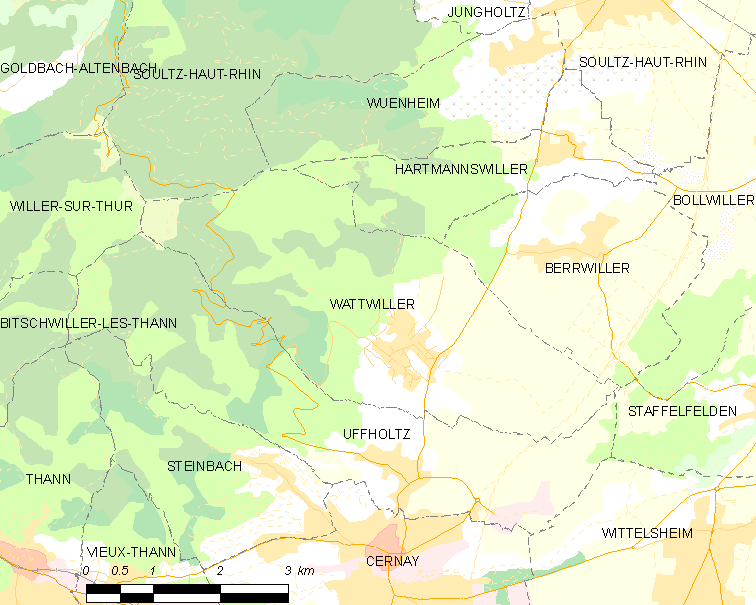 Map of French municipality